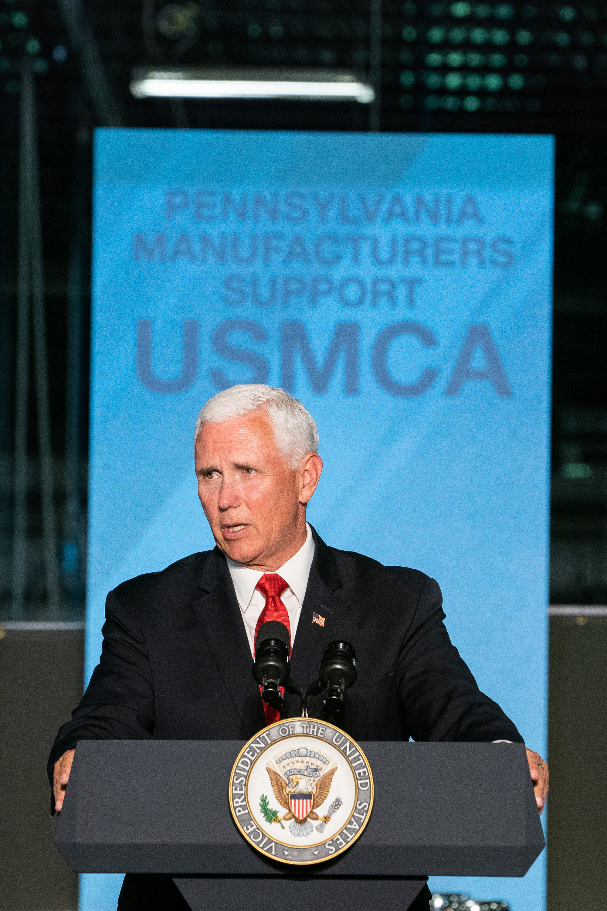 Vice President Mike Pence participates in a tour and delivers remarks at JLS Automation in Pennsylvania, Thursday, June 6, 2019. (Official White House Photo by D. Myles Cullen)